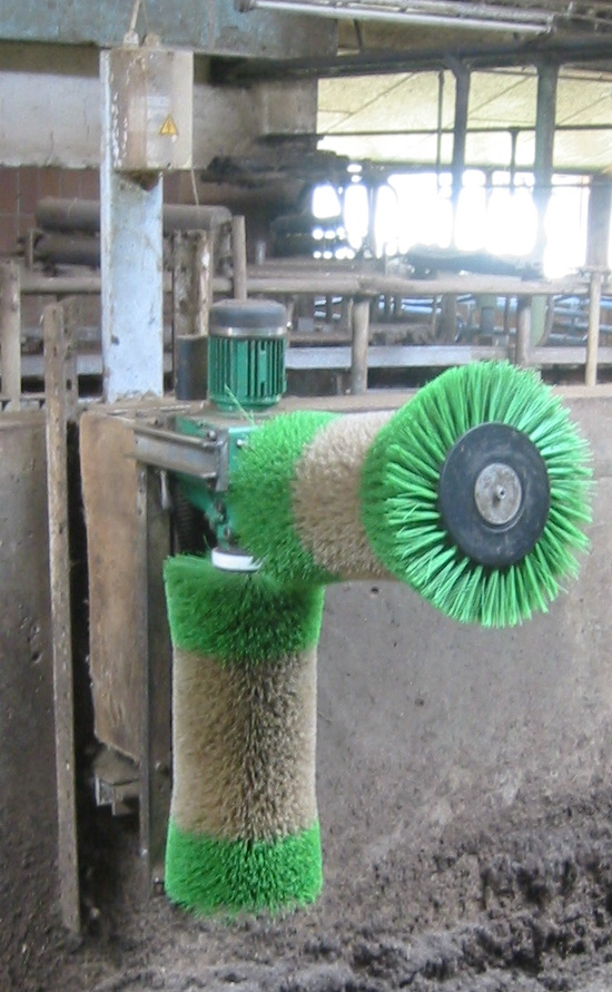 Massage device for domestic cattle